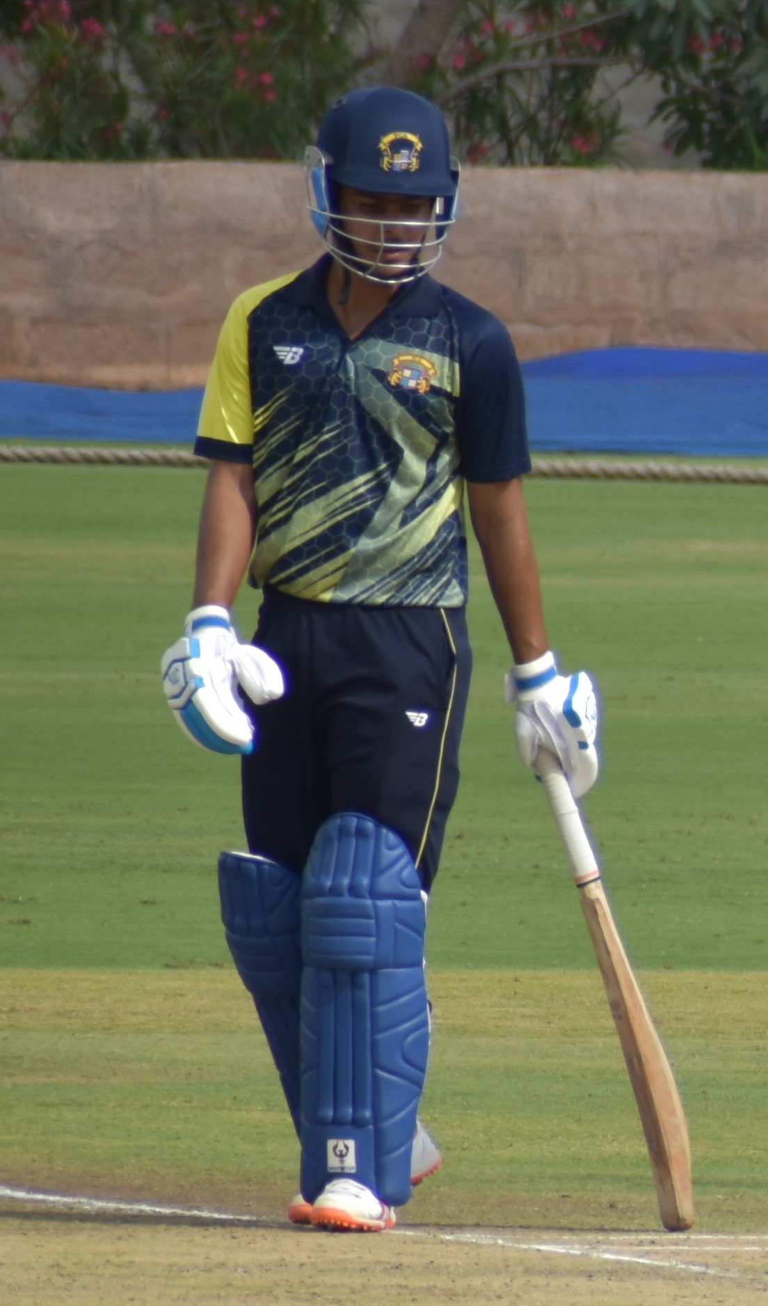 Indian cricketer Sanvir Singh during the 2019-20 Vijay Hazare Trophy in Alur, Bangalore.